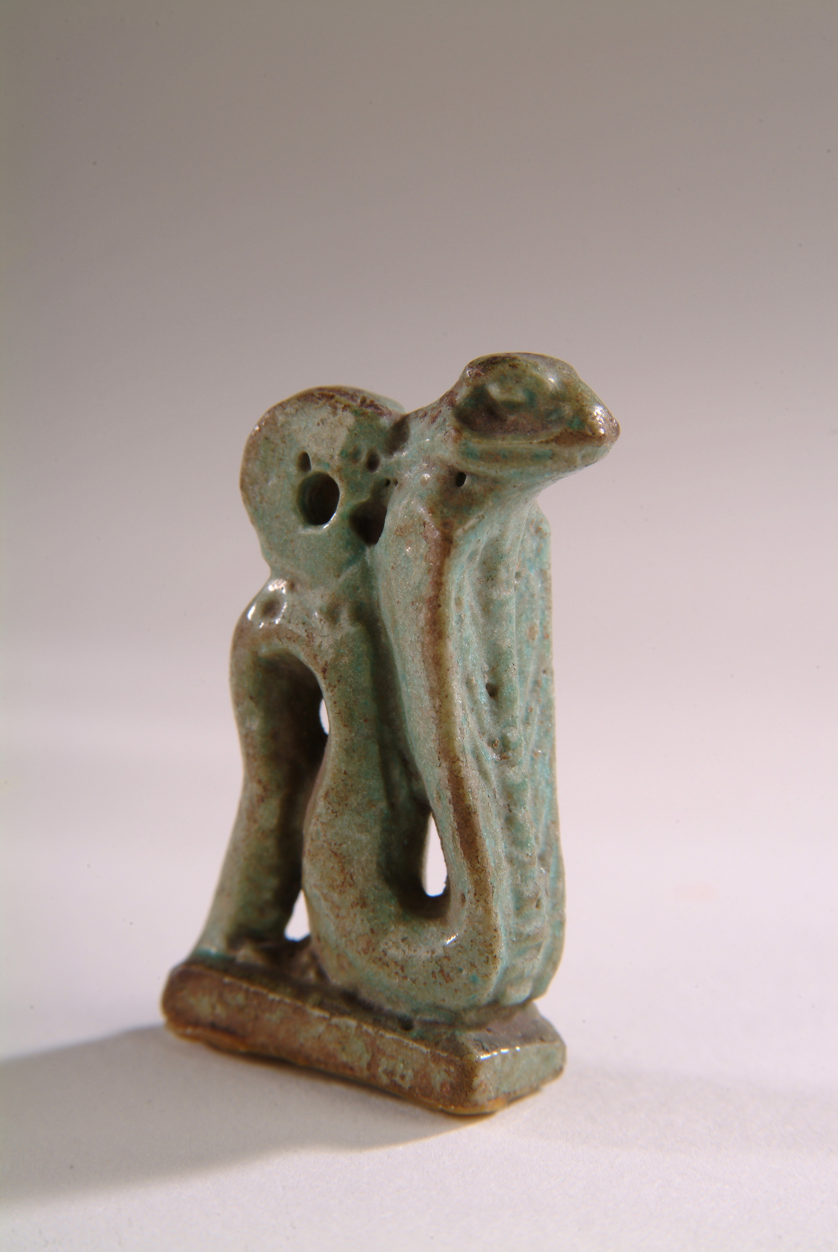 Faience green glazed Cobra amulet originally from a necklace. in the form a of rearing cobra, with a loop for the necklace to pass through. Green glazed Cobra or Uraeus Amulet (New Kingdom onwards). The cobra was associated with many gods and goddesses including Maat, Neith and Re as well as symbolising Southern Egypt, the sun and the king. The cobra was also called 'Weret Hekau', 'The Great Enchantress' who could assume the form of a human-headed cobra. The cobra also appeared in funerary imagery, for example as a fire spitting guardian within the Book of Gates, protecting each 'hour' of the underworld.